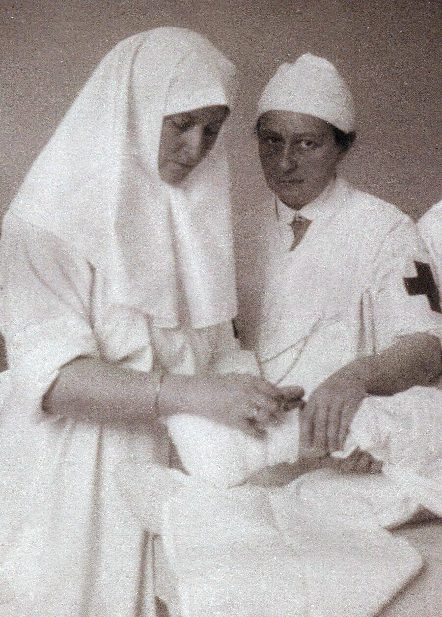 Vera Gedroitz and Alexandra Feodorovna Romanova